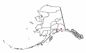 Adapted from Wikipedia's AK borough maps by Seth Ilys.